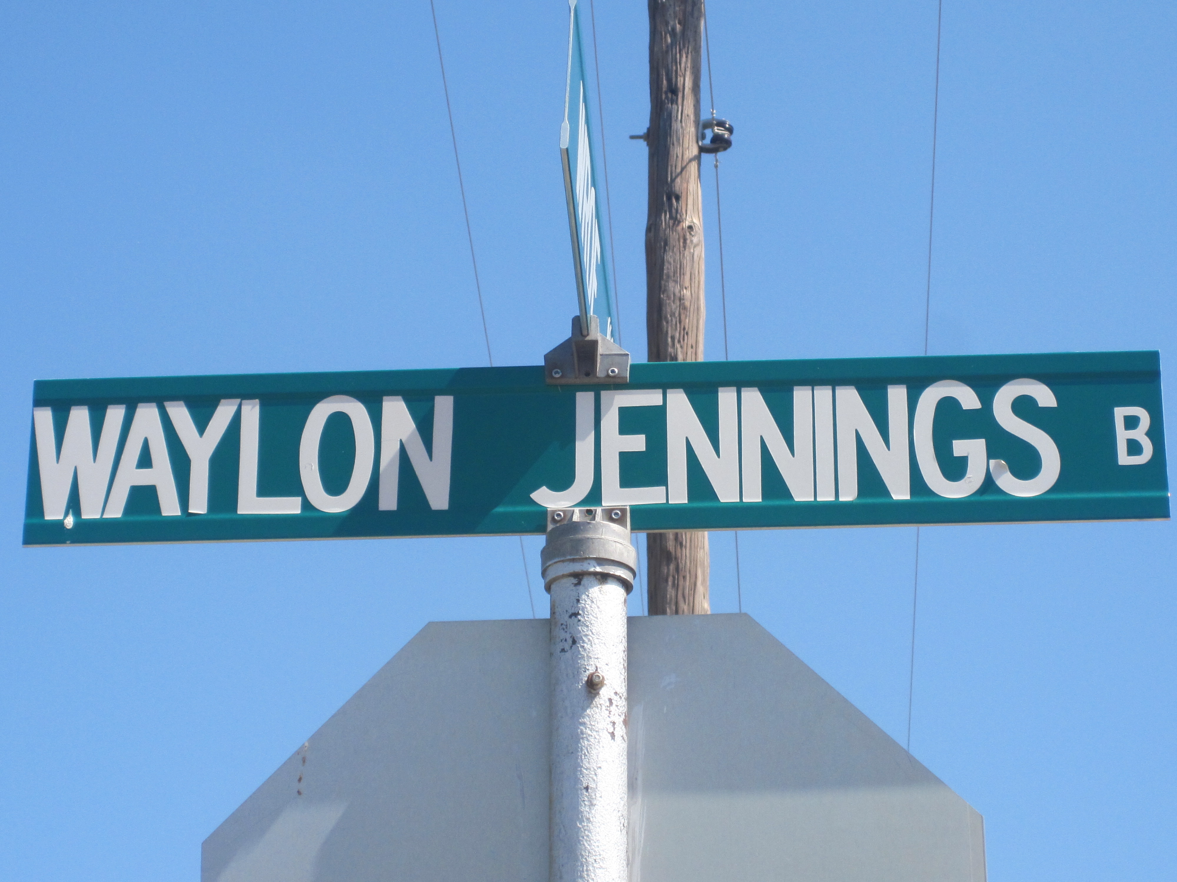 I took photo of Waylon Jennings Blvd. sign in Littlefield, TX, with Canon camera.